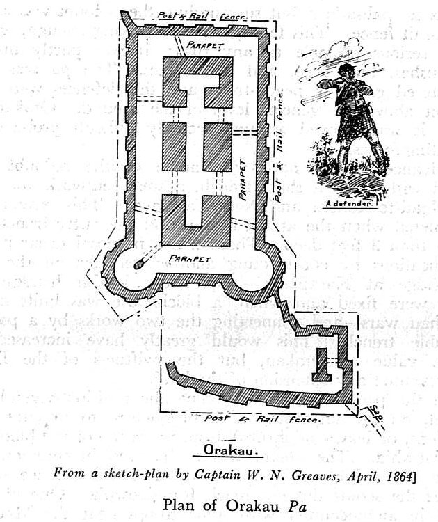 Plan of Orakau Pa. The shaded parts indicate the trenches and the dug-outs for shelter from shell-fire.